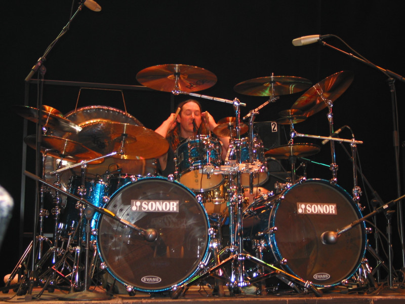 Danny Carey performing at the 2005 Modern Drummer Festival with the band Volto. Sonor drum-kit